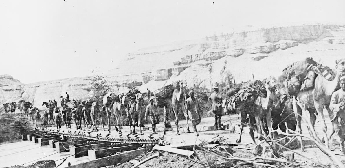 IWM caption : THE RAID ON AMMAN, MARCH 1918. Men of the Camel Transport Corps with their transport camels crossing pontoon bridge at El Ghoraniyeh.